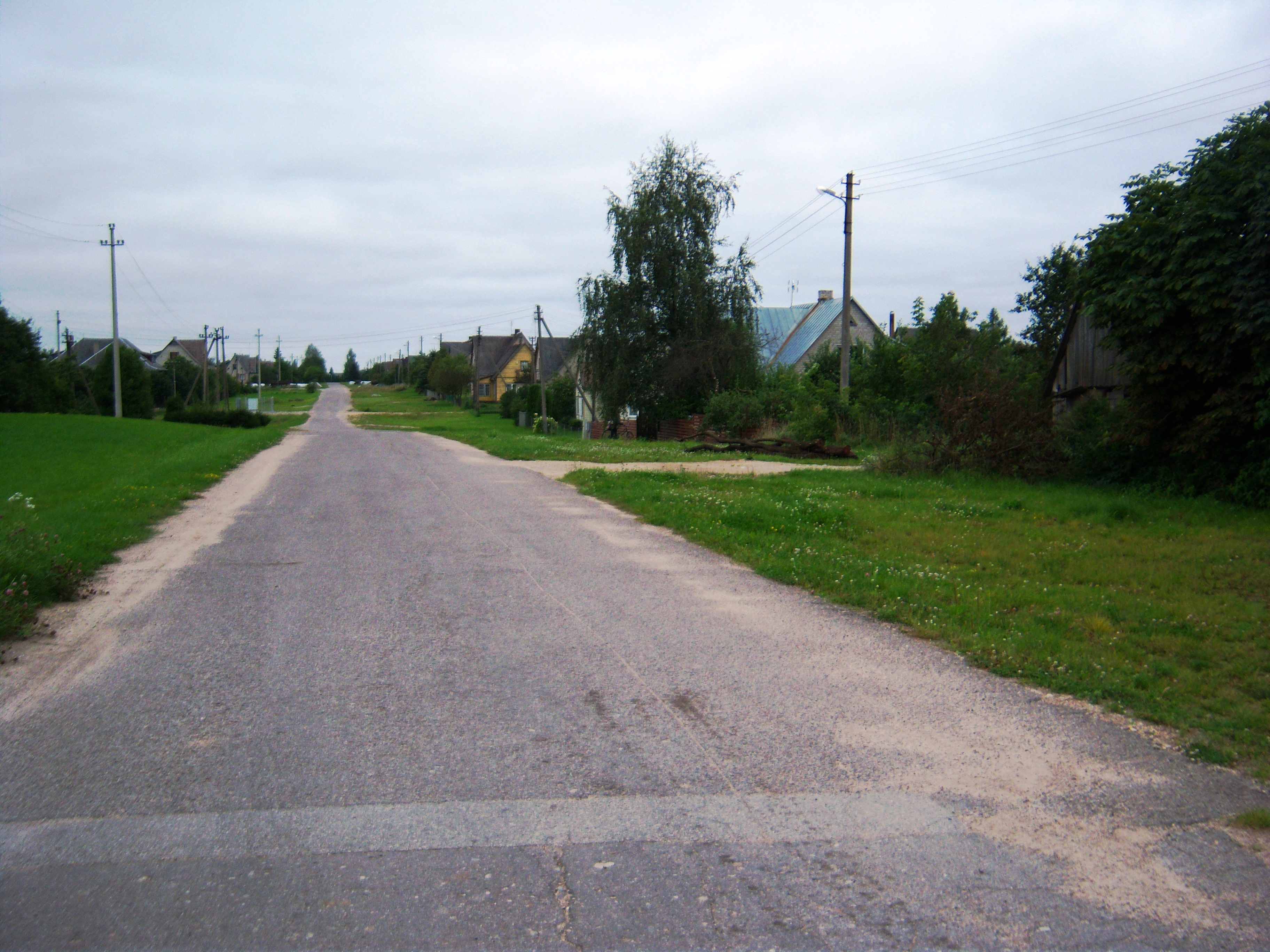 Vilkija village, Kaunas district, Lithuania